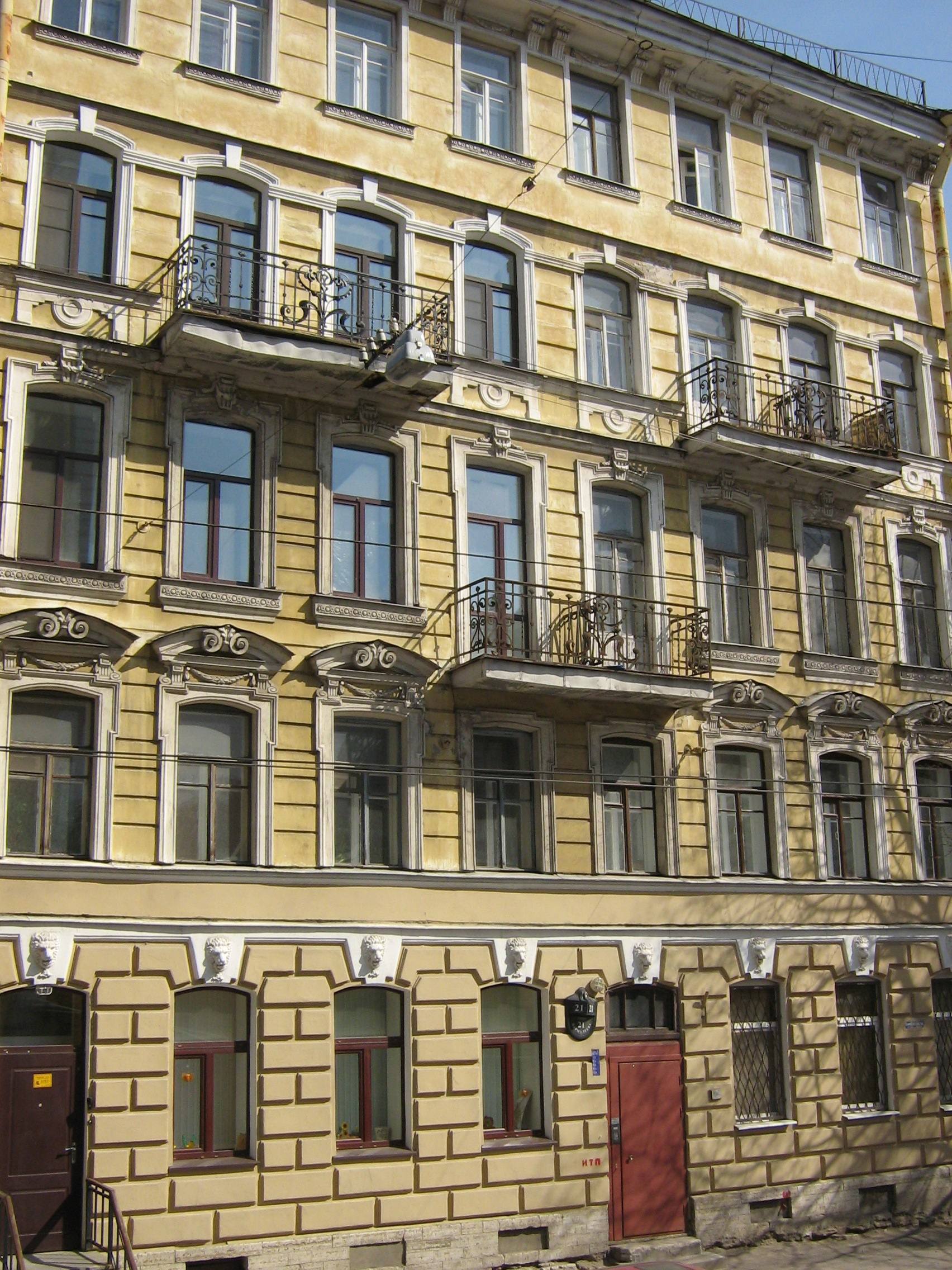 21, Barmaleeva street (Saint-Petersburg, Russia)